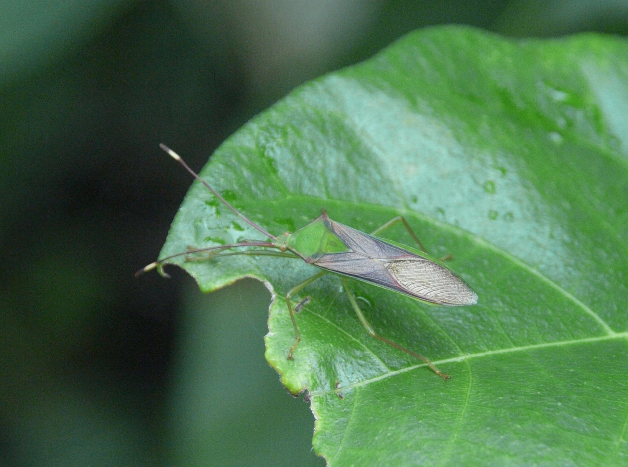 Anacanthocoris striicornis(Coreidae)